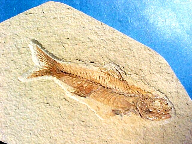 Original description: Amphiplaga brachyptera Fossil Fish Order Percopsiformes; Family Percopsidae Geological Time: Eocene Green River Formation, Wyoming